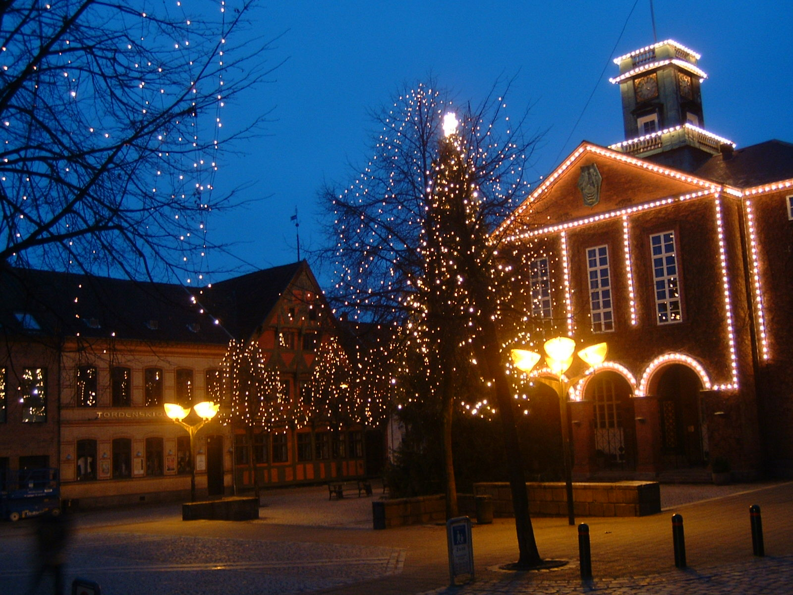 Own photograph of Axel square (Akseltorv) in the Danish city of Kolding around Christmas 2002.